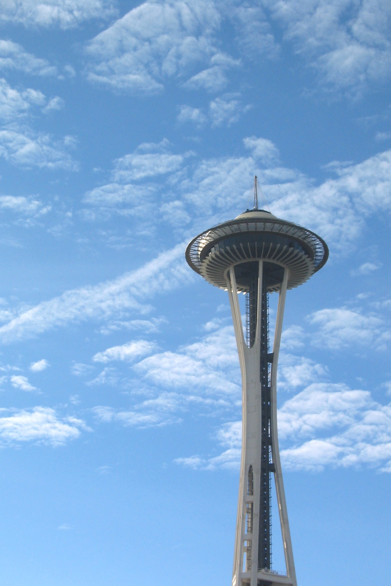 Space Needle